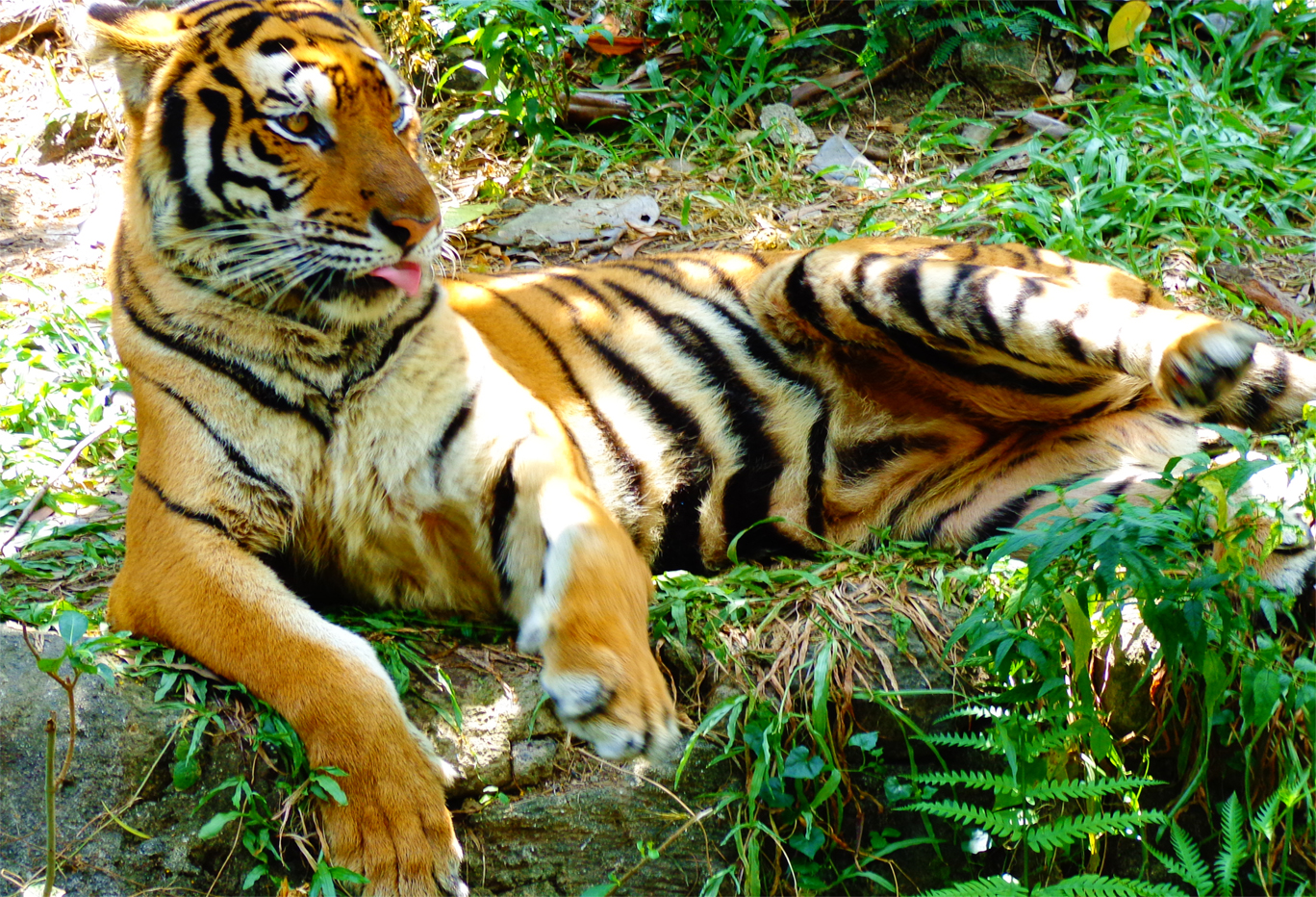 An amateur photograph I took when I went to the zoo after having my new camera. Slight editing in adobe photoshop, which includes resizing as original image is 10MP and is too big, and increasing the vividness. Other information An amateur photograph I took when I went to the zoo after having my new camera.